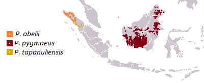 Range of the three orangutan species.